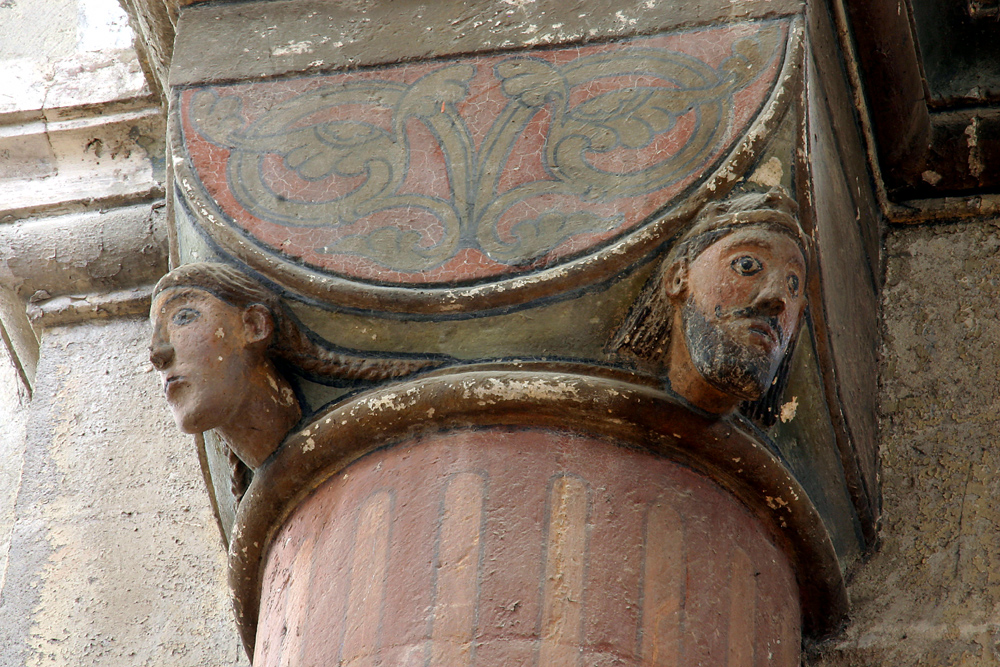 Church Groß St. Martin, Cologne, Germany. capital column of the south western intersection, sculptures, maybe personating Pippin and his wife Plectrude